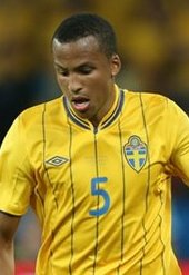 Martin Olsson at the Euro 2012 match against France